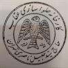 the old logo of an Iranian company (oghab halva)